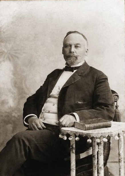 Edward Woynillowicz (1847–1928), leader of Minsk agricultural society